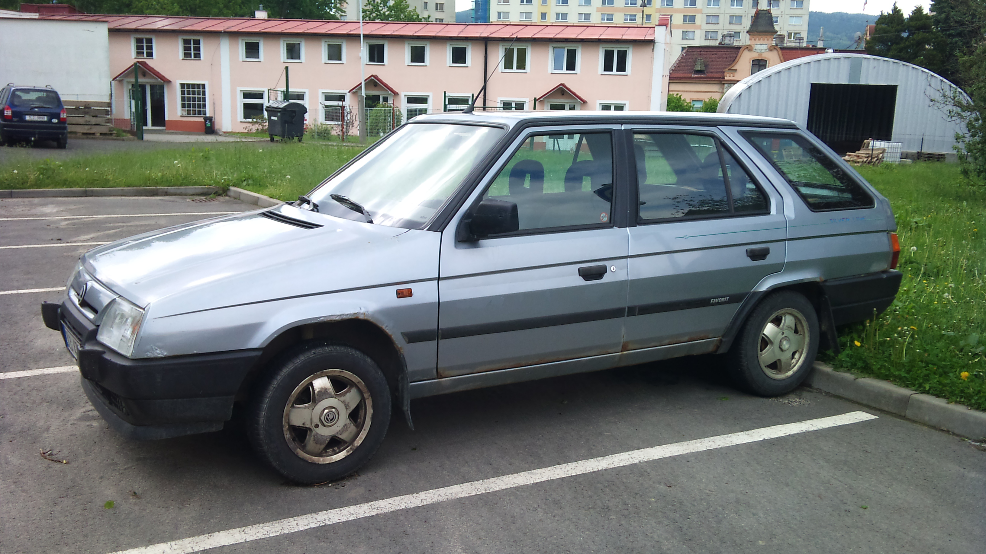 Shows Skoda Forman